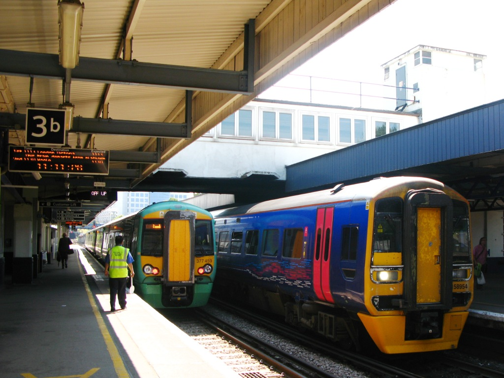 Southampton Central railway station. Southern electric train 377459 (left) waits with a West Coastway service as First Great Western diesel train 158954 arrives with a Wessex Main Line service.